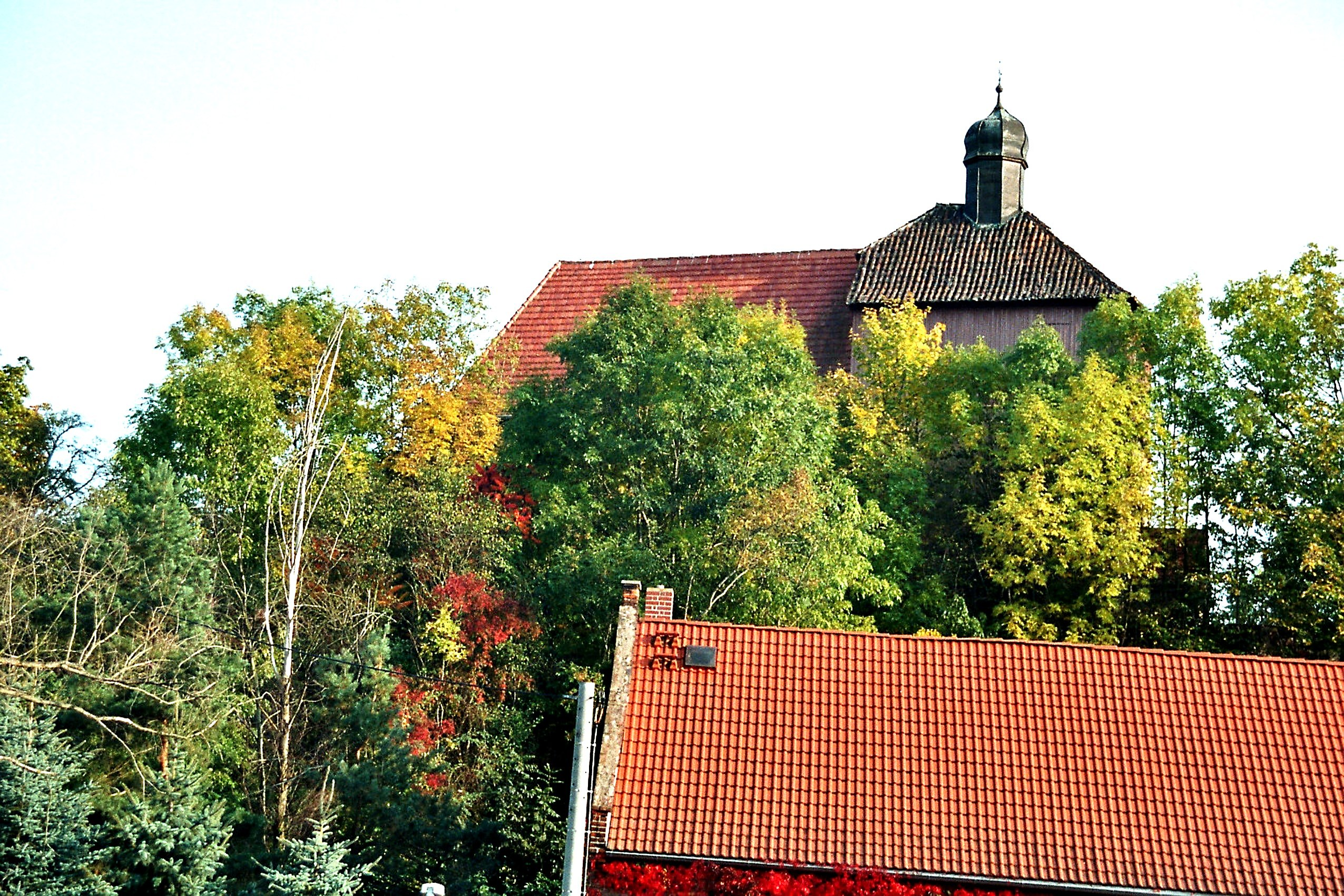 Wettaburg (Naumburg), view to the church